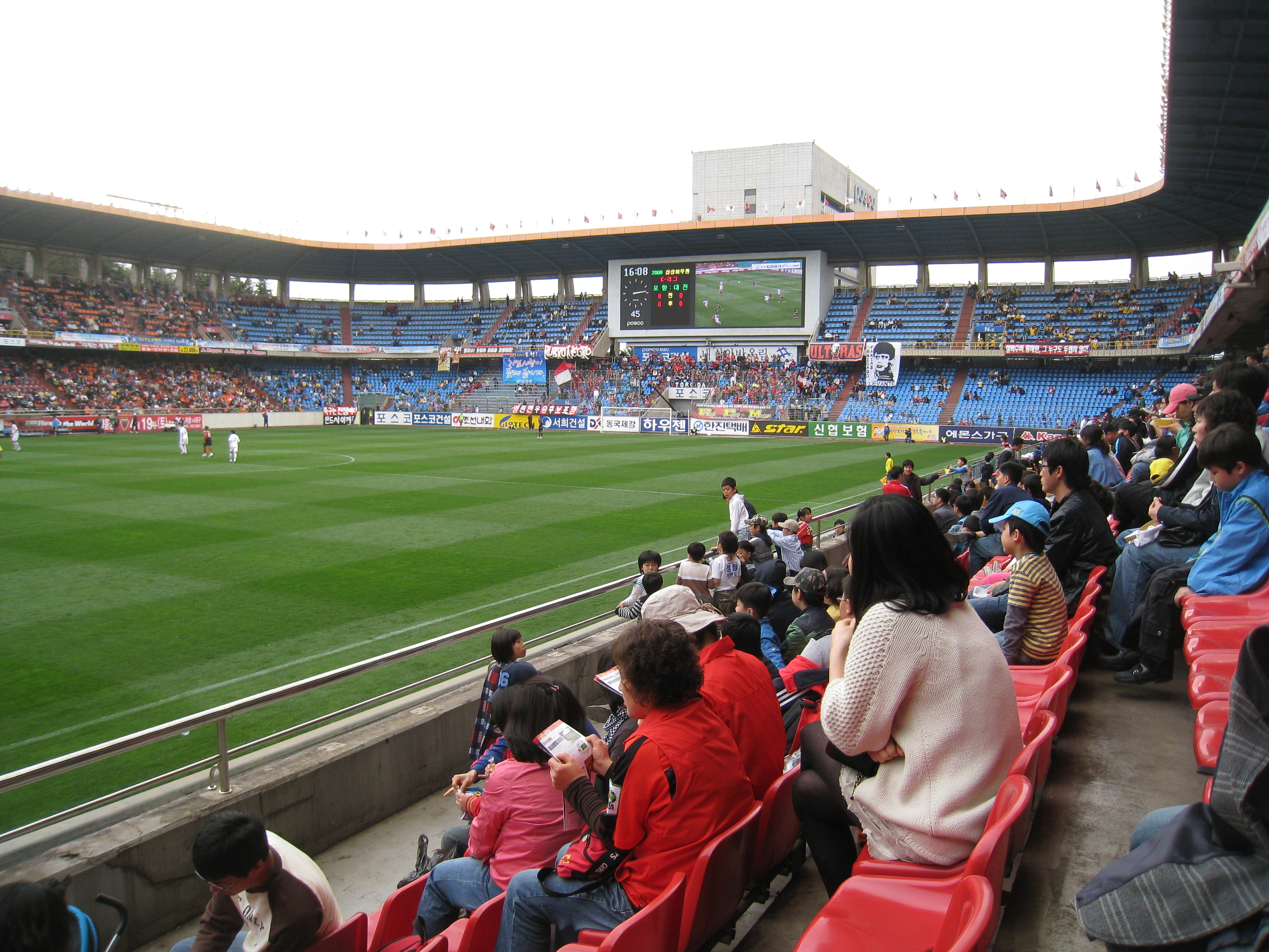 Pohang steelyard football ftadium. Pohang-Shi. South Korea.